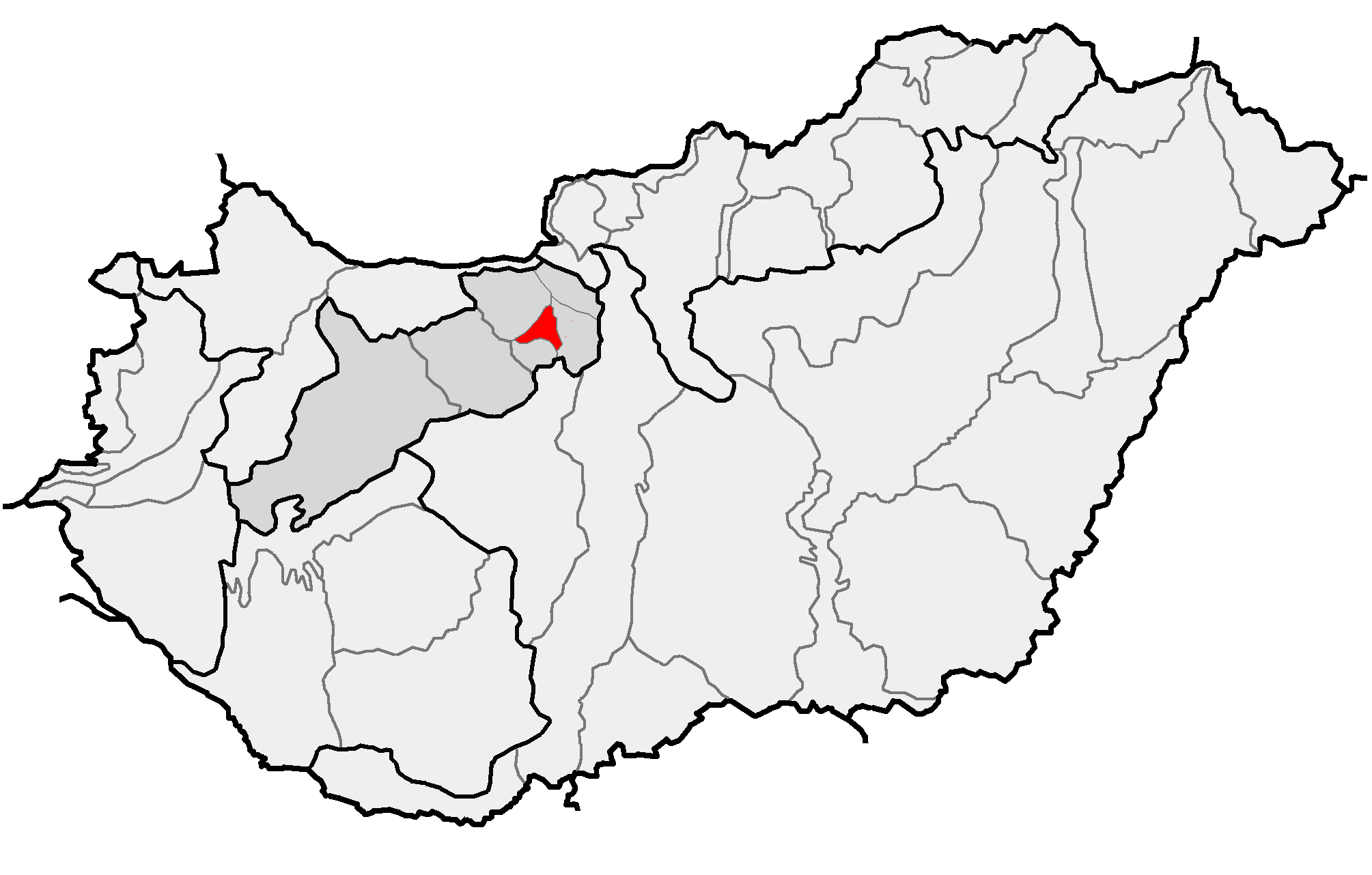 Location of geographical microregion of Zsámbéki-medence (red) and macroregion of Dunántúli-középhegység (gray) within subdivisions of Hungary.